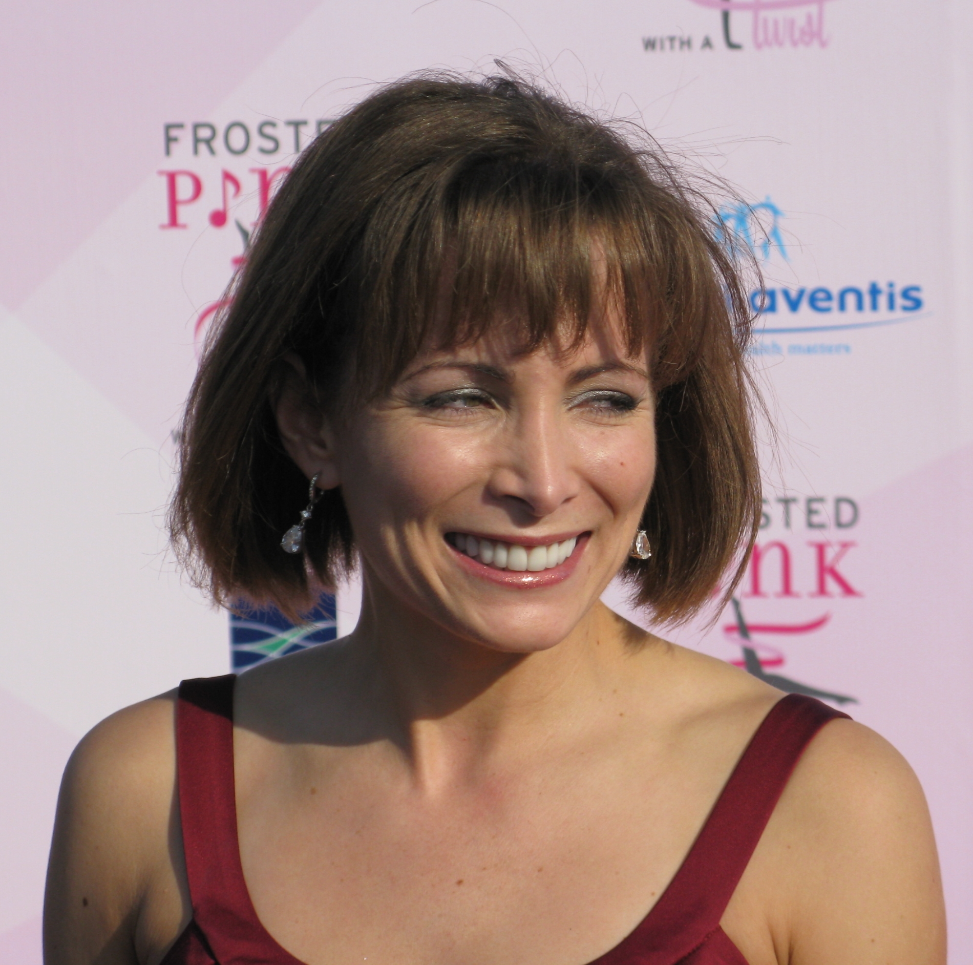 San Diego, California on September 14th, 2008 Shannon Miller., on the "Pink Carpet" at the 2008 Frosted Pink With A Twist women's cancer benefit in San Diego, California on September 14, 2008